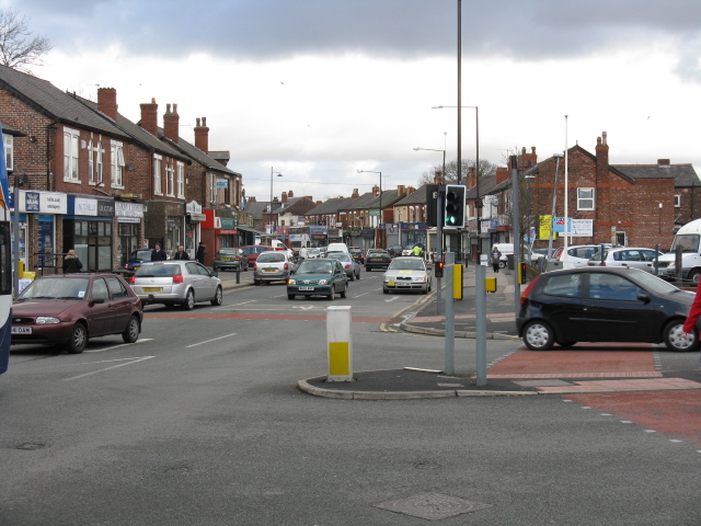 A view of Church Road Junction in the Northenden part of the city of Manchester, England.